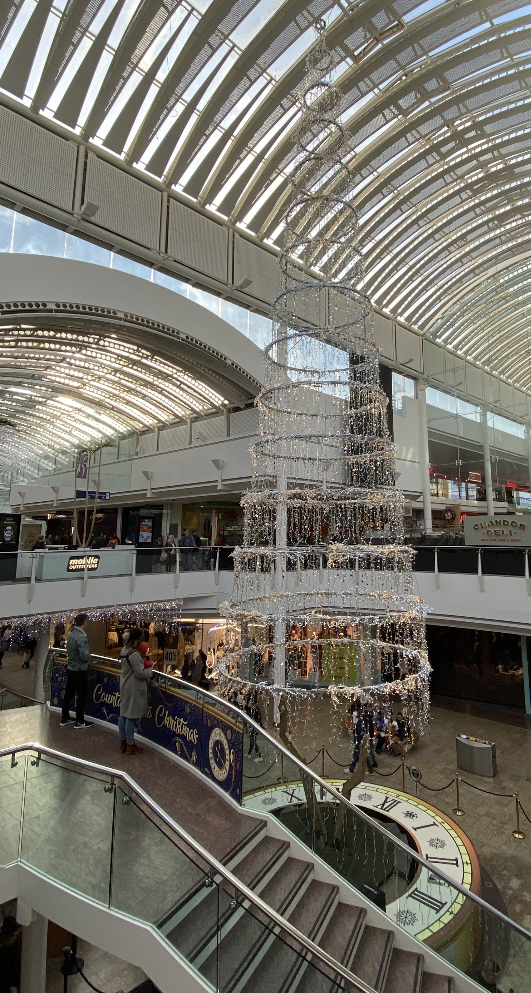 The central Christmas Tree installed at the Mall Cribbs Causeway